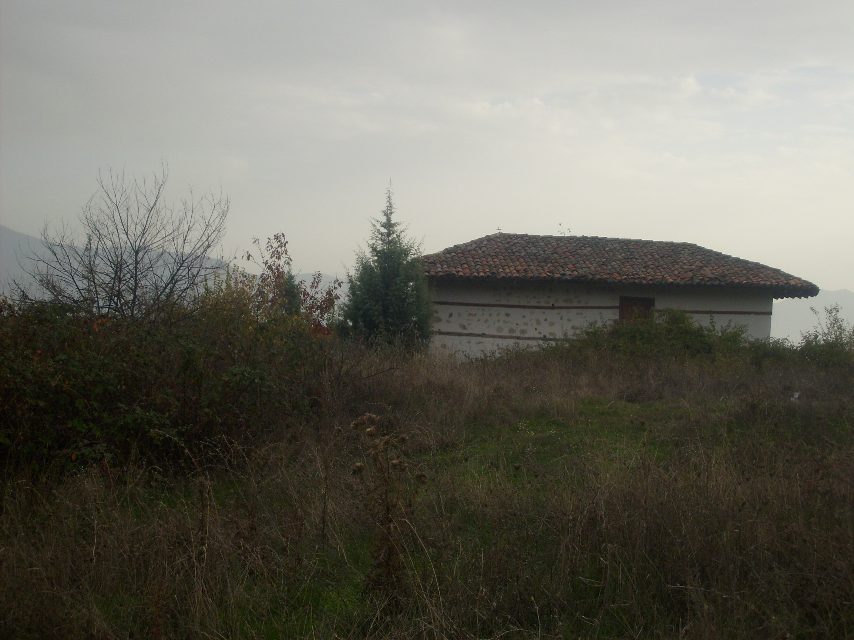 Rozhen Monastery